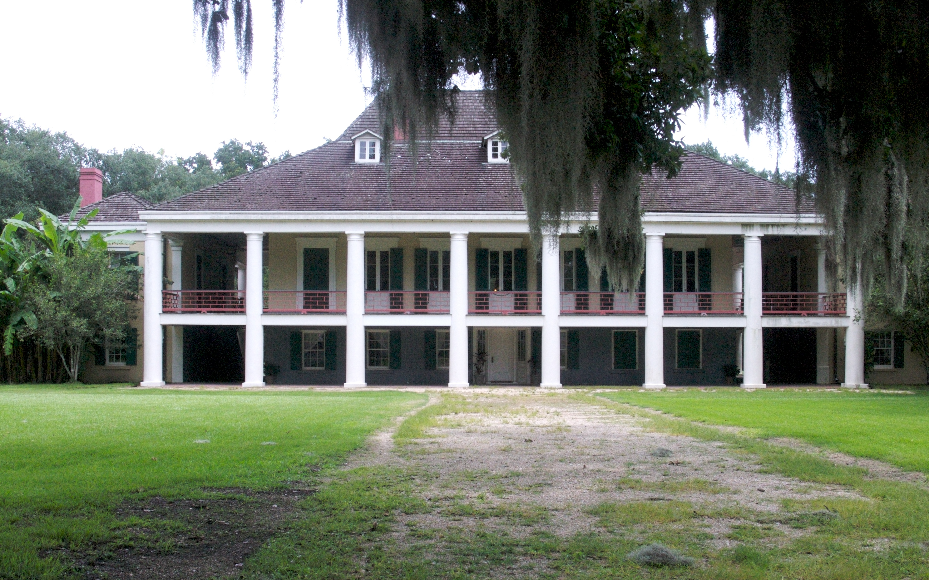 The Destrehan Manor House was constructed in 1787–1790 for Robert de Logny and inherited by Jean Noel d'Estrehan in 1800. It was eventually donated to the River Road Historical Society in 1972.